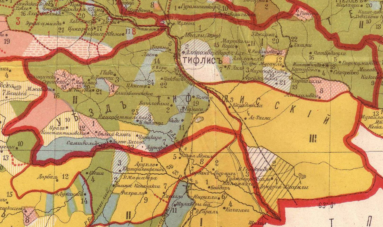 Ethnographic map of the Tiflis uyezd